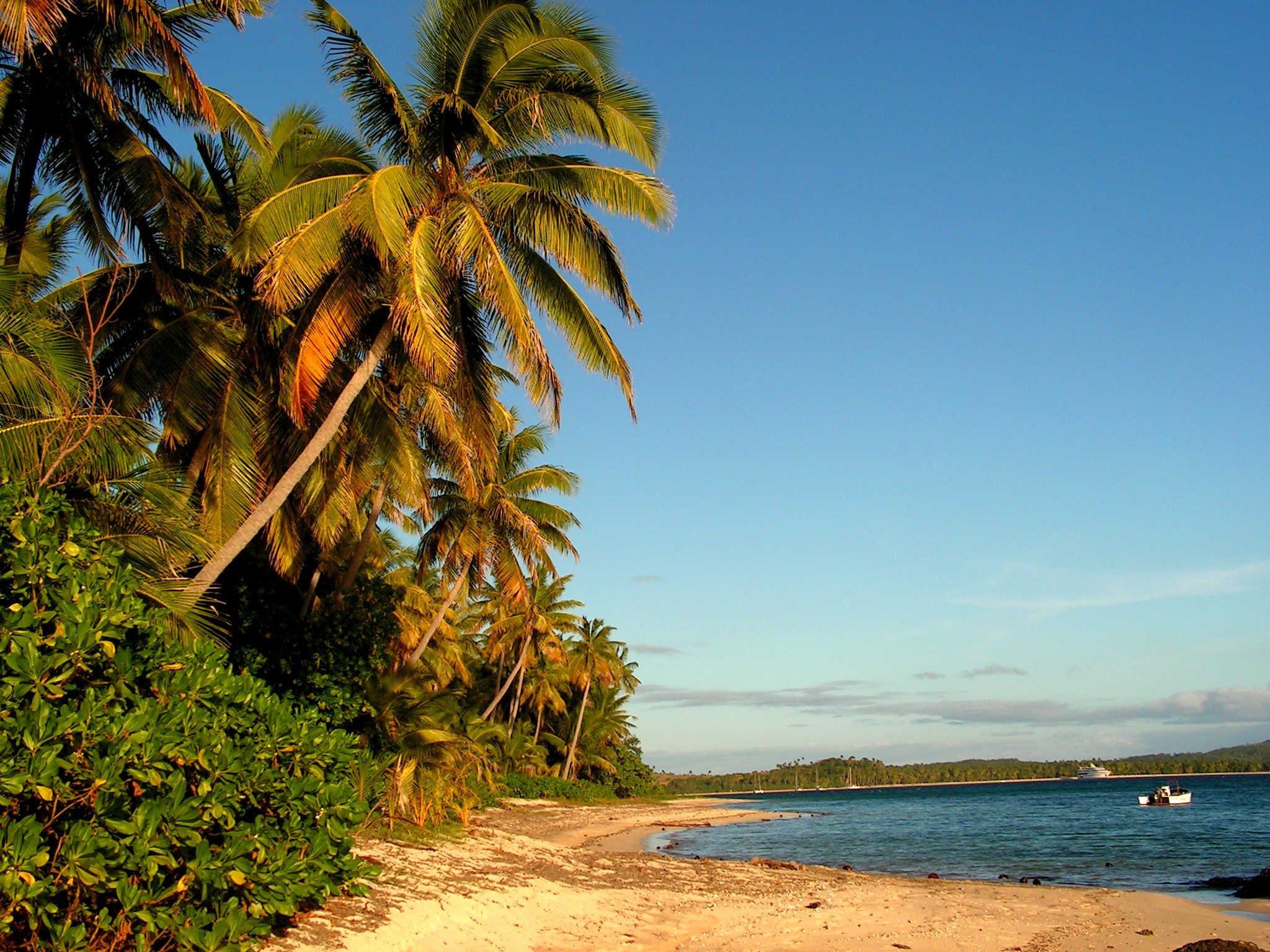 The Point (Fiji)